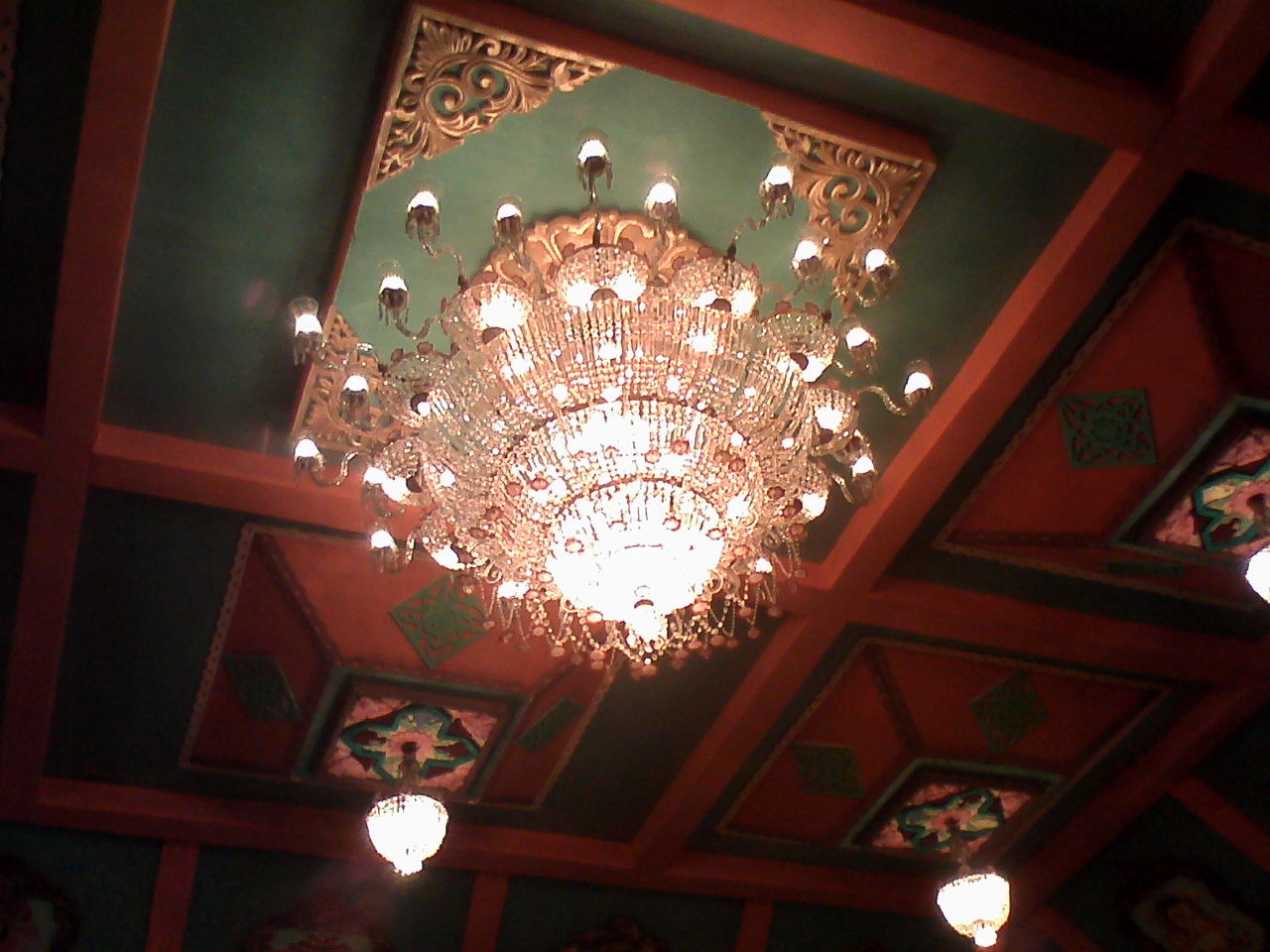 A chanderlier in one of the Durga Puja pandals in West Bengal , India